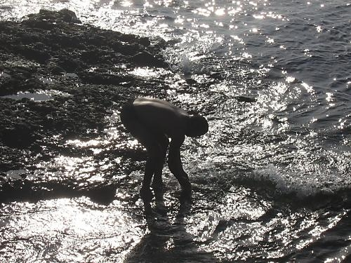 fisher at the shore of Salvador da Bahia, Brazil